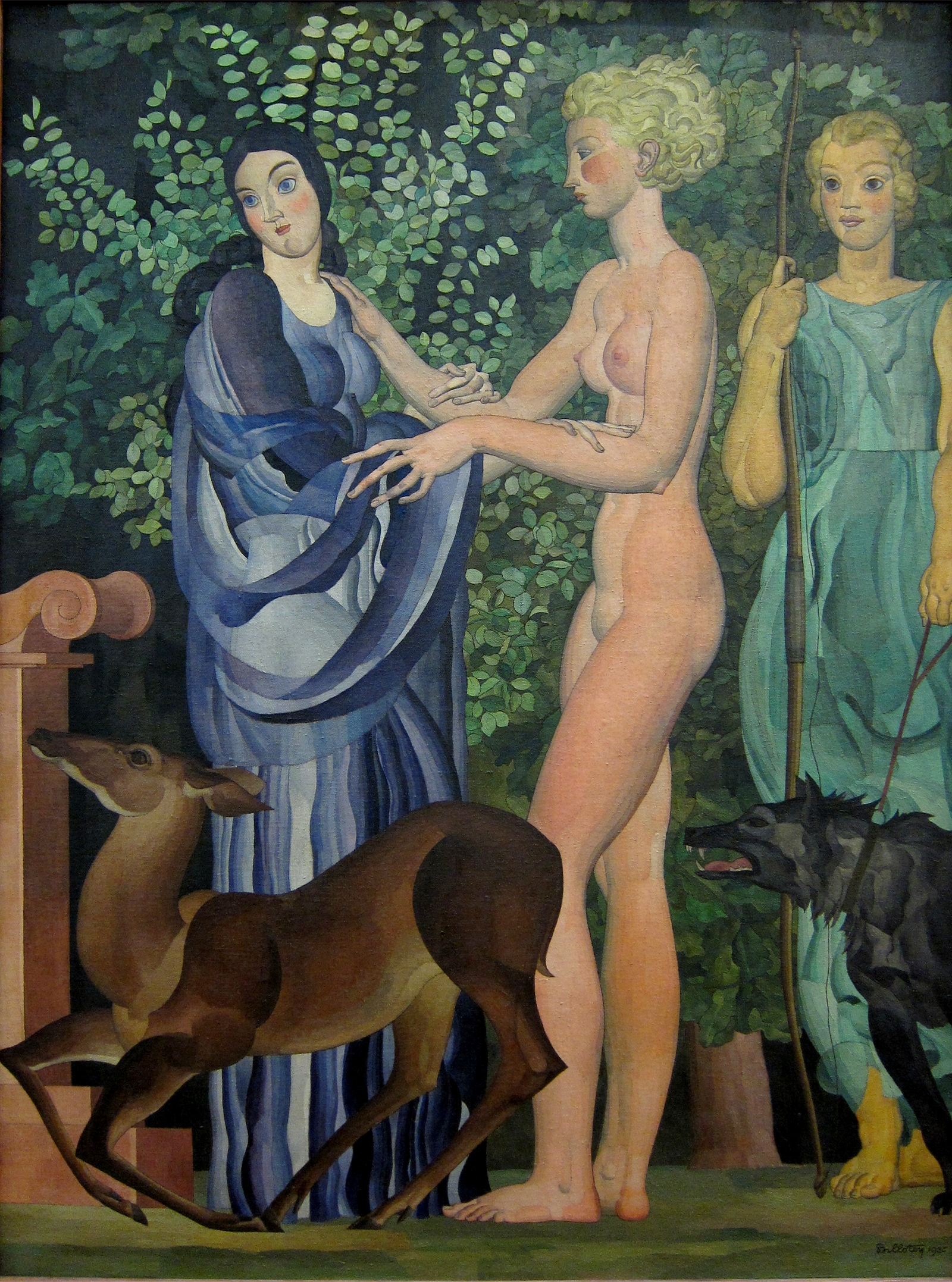 Painting by Louis Billotey, showing Clytemnestra, Iphigenia, and Artemis, with altar at left